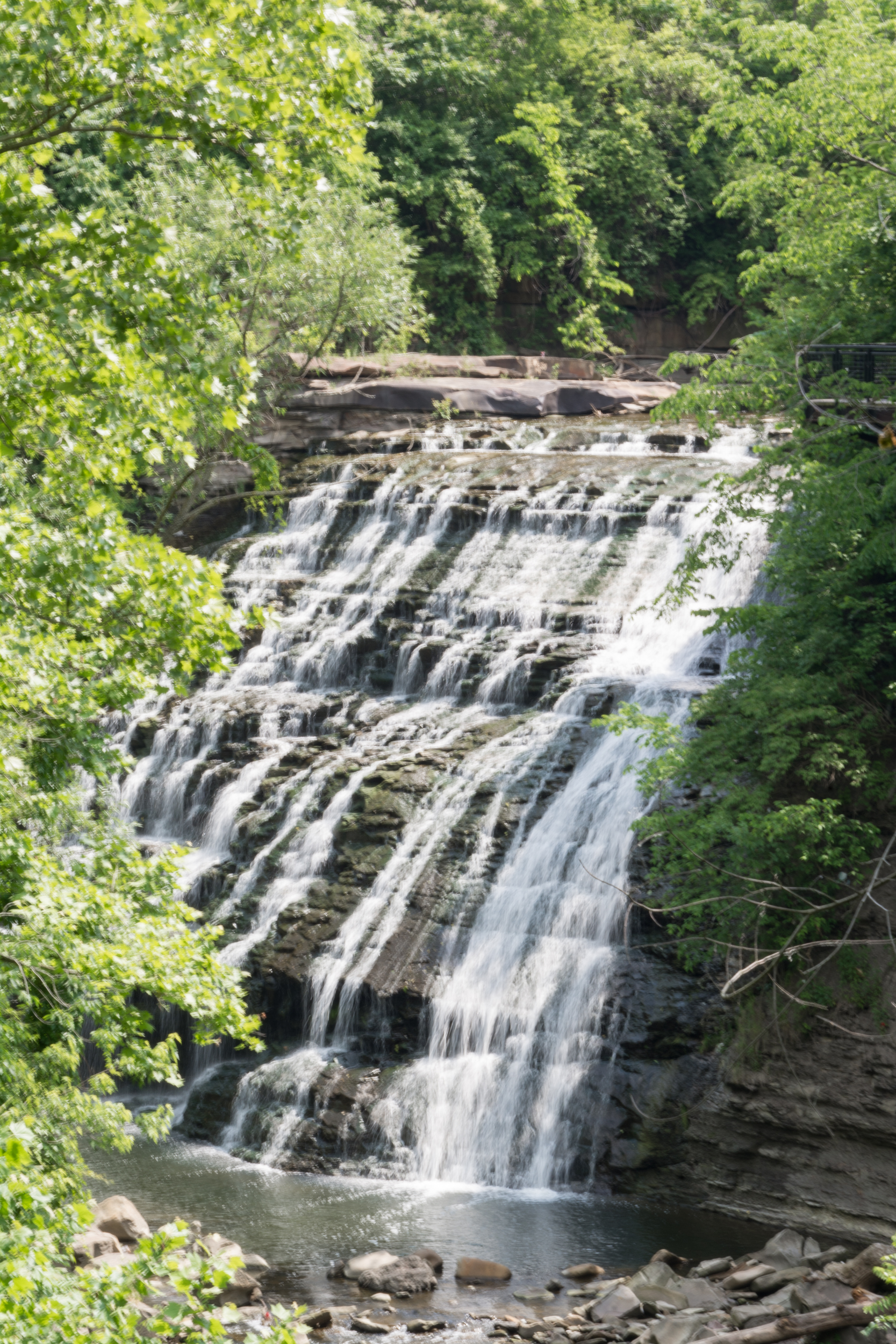 View of Mill Creek Falls on Mill Creek in Cleveland, Ohio, in the United States.